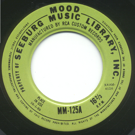 Label of a 1969 Seeburg "Mood" series 16 rpm record.